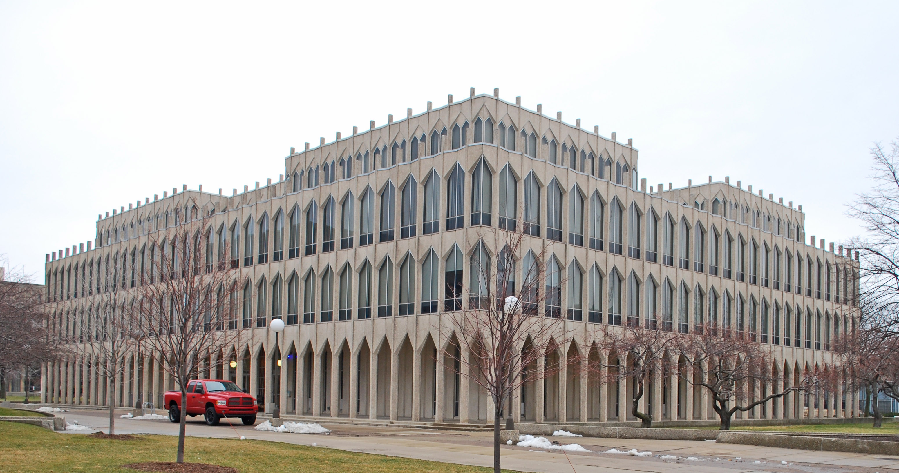 The Education Building — on the Wayne State University campus, Midtown Detroit, Michigan. Modernist architecture by Minoru Yamasaki. The building is a Registered Michigan State Historic Site.